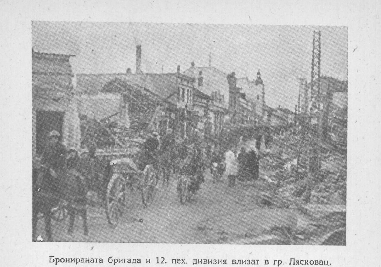 Bulgarian troops entering the town of Leskovac in October 1944.